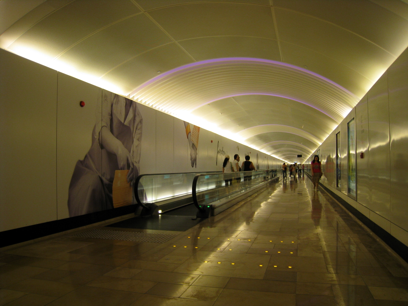 Three Pacific Place MTR Subway